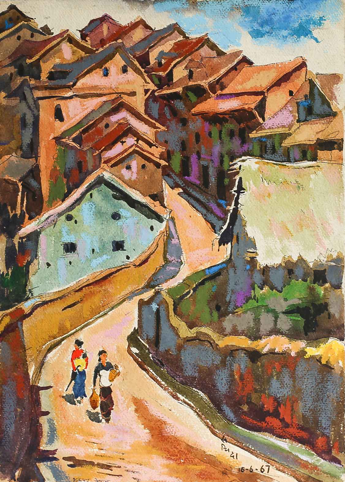 Landscape of Bharatpur, Nepal by Sachida Nagdev. Gouache on Paper. 1967.